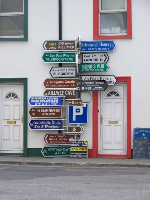 Far, far too much choice, Ballyvaughan/Baile ui Bheachain Plenty of things to do and see in Ballyvaughan.